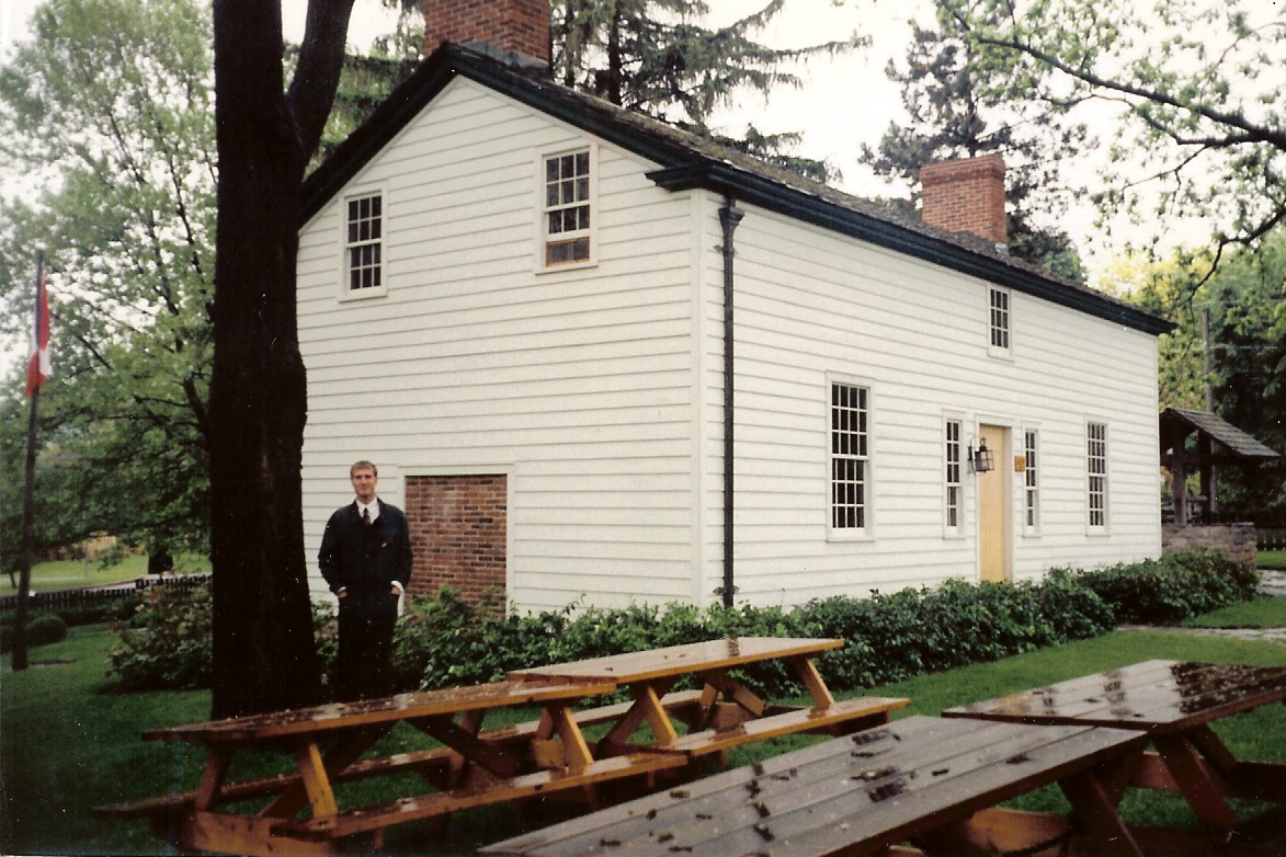 Laura Secord Homestead, Niagara-on-the-Lake, Ontario -- home of a war of 1812 heroine, now a museum.